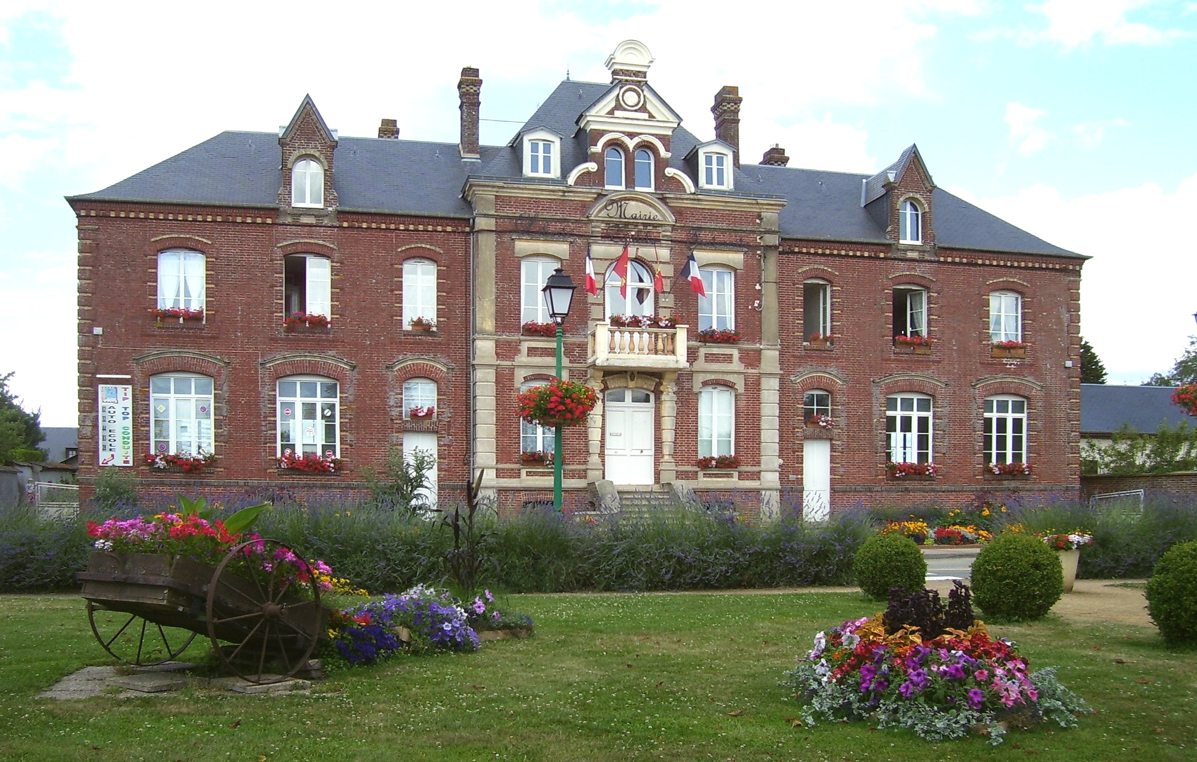 Town hall of La Neuville-du-Bosc, departement Eure, Normandie, France